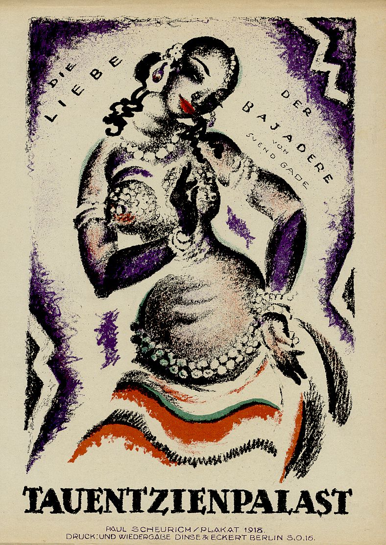 Die Liebe der Bajadere, a 1918 German silent film directed by Svend Gade